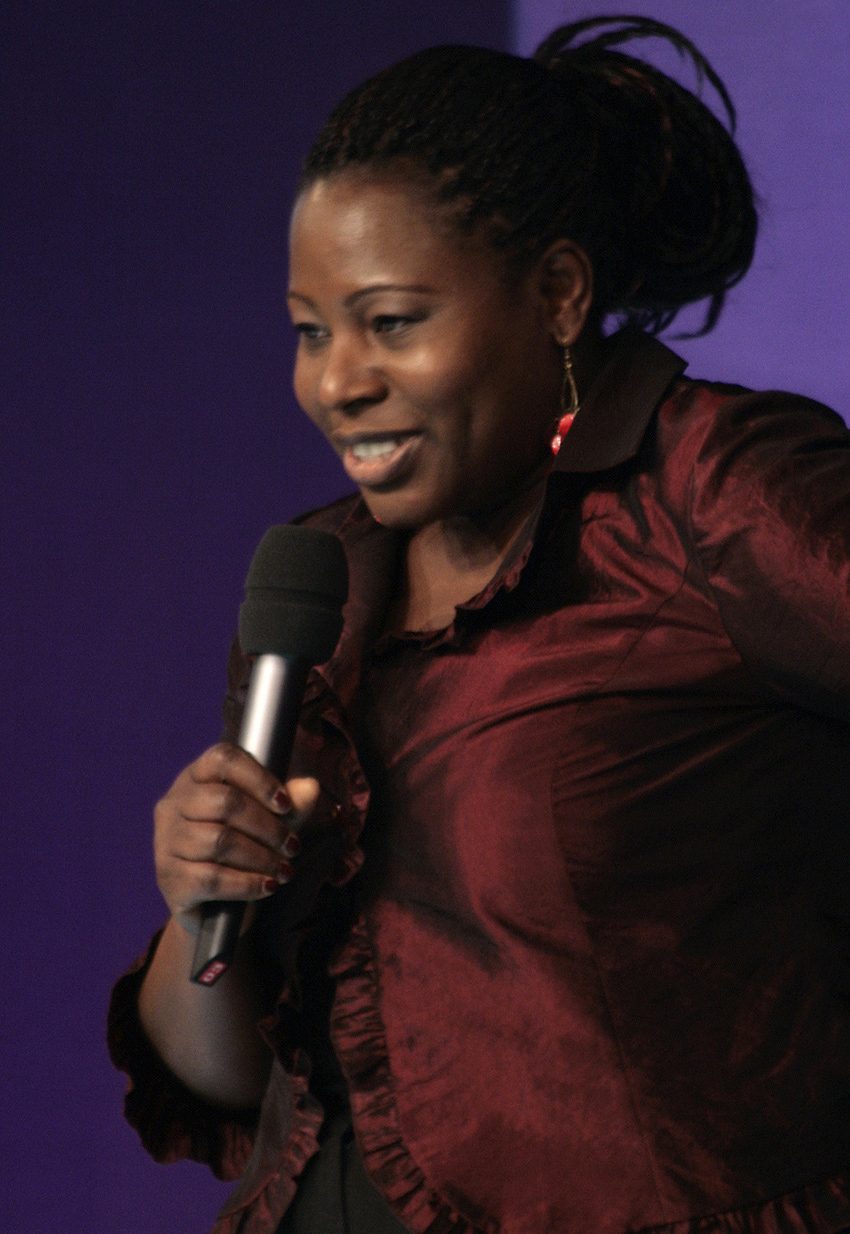 Beatrice Achaleke at the MiA-Awards 2009 (Studio 44, Vienna, Austria).